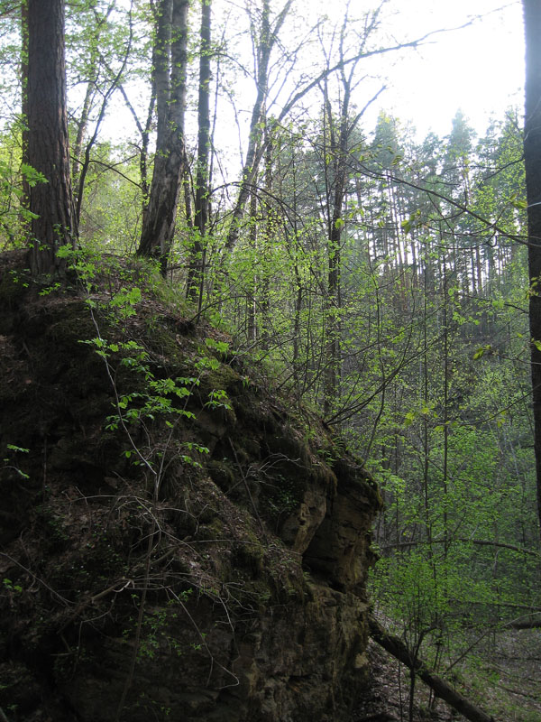 The general view of Ichalki Forest